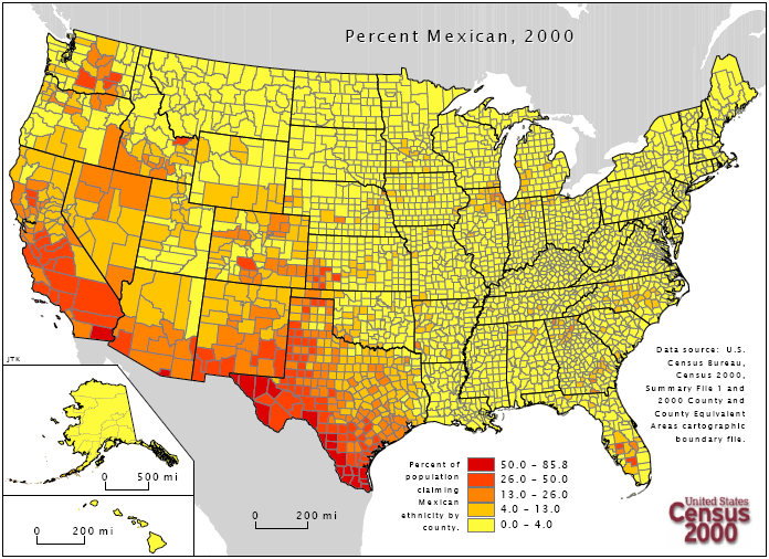 Diagram indicating Mexican American settlement in the United States. Image based on the census 2000 by the U.S. Census Bureau.